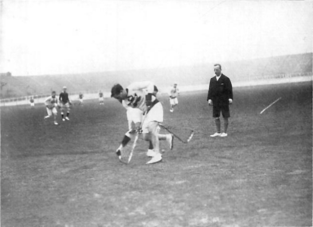 Lacrosse at the 1908 Summer Olympics. Shows Patrick Brennan going for a ground ball.